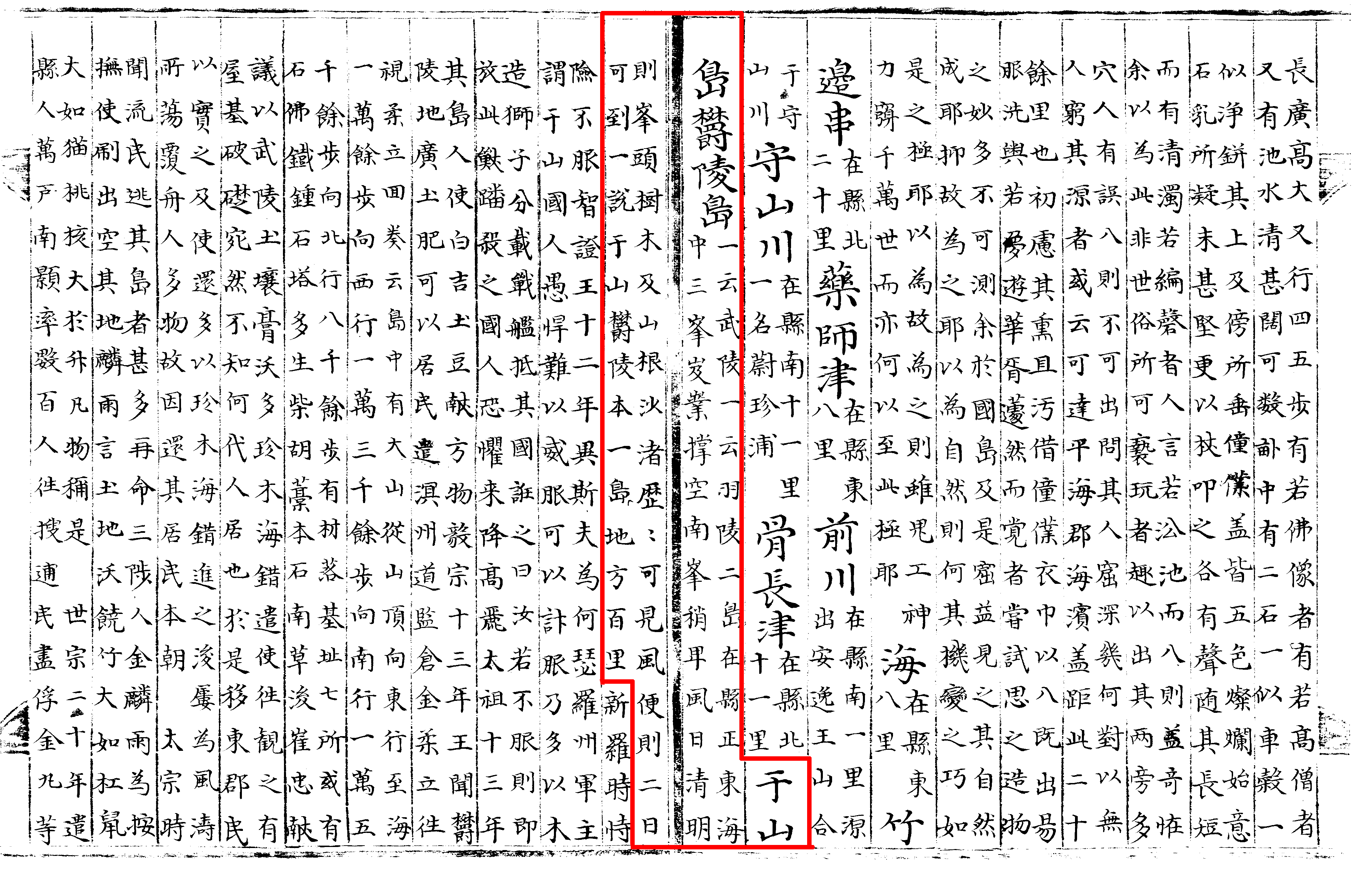 Description of Usando and Ulleungdo in Yojiji